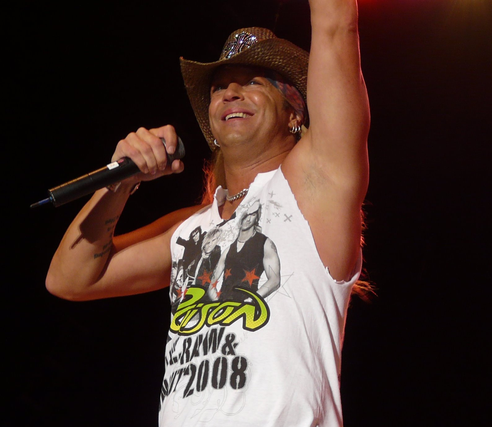 Bret Michaels with Poison at the Moondance Jam on July 11, 2008 in Walker, Minnesota.